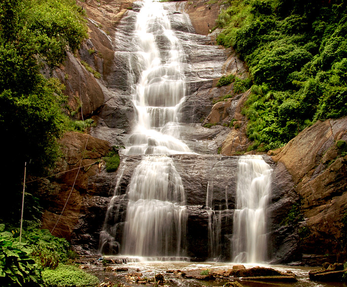 Silver Cascade Falls